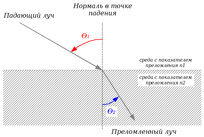 Scheme explaining light refraction in Russian